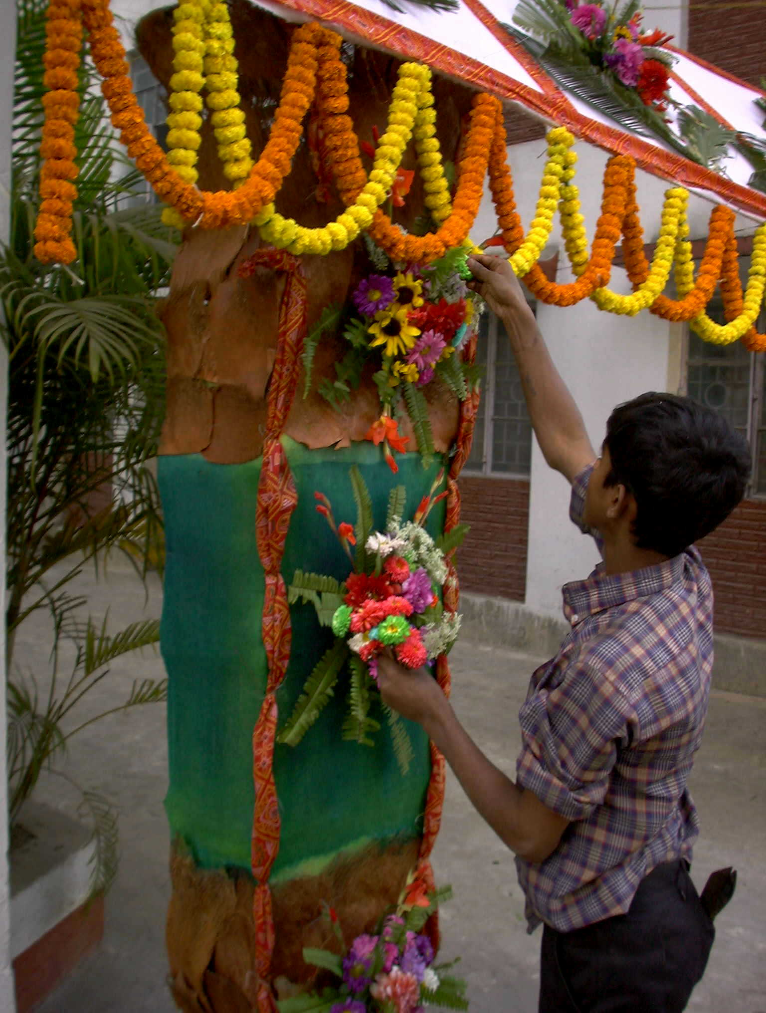 Flower decoration for a wedding in front of a house in Kolkata